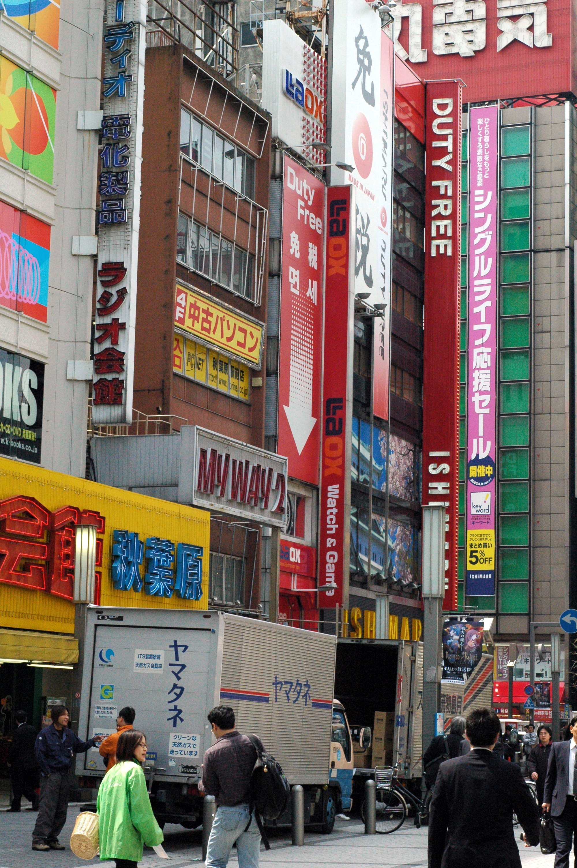 Akihabara from the "Electric Town" exit of the JR station -- by jpatokal